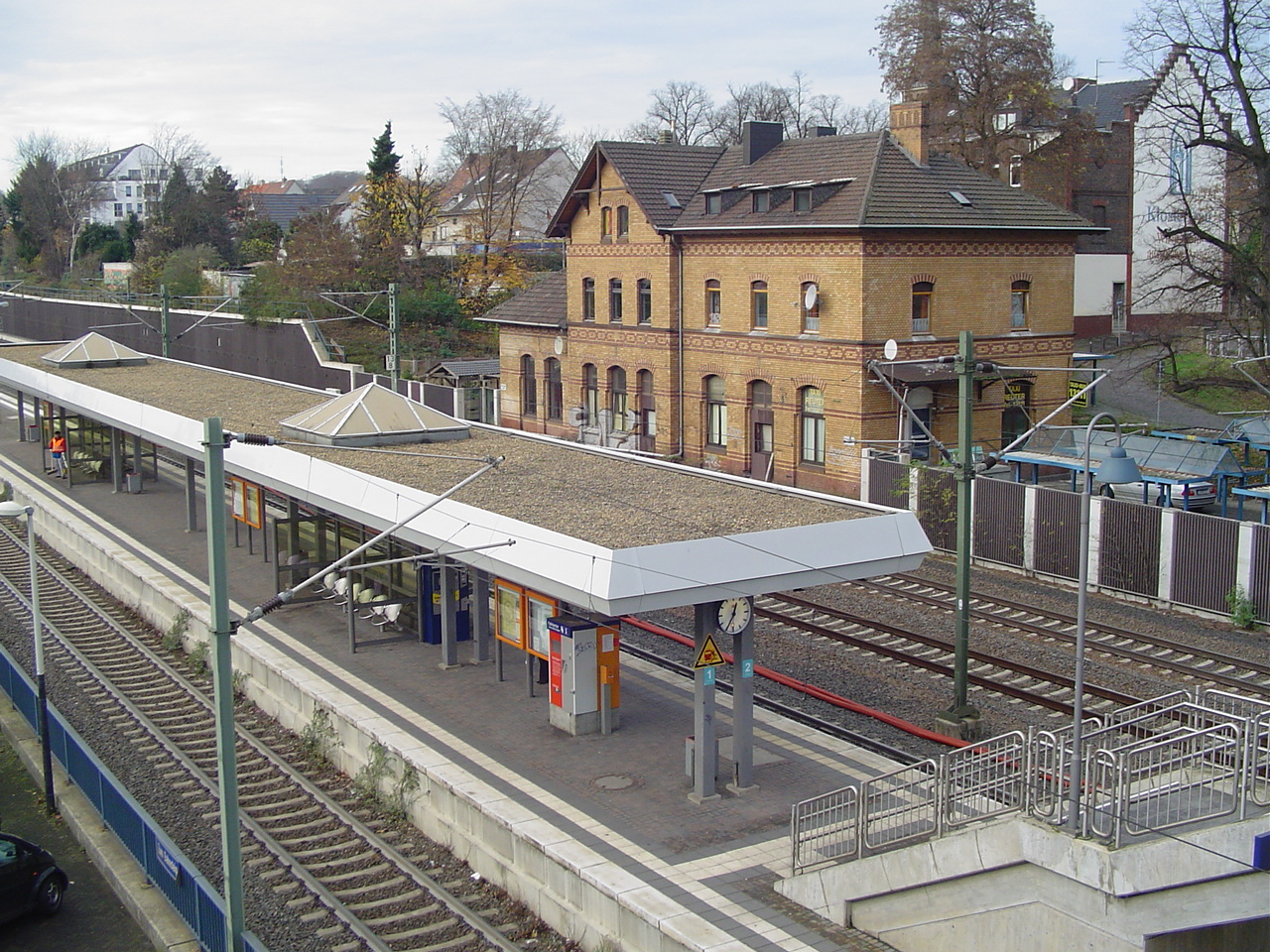 Train station (S-Bahn) in Frechen-Königsdorf, Germany